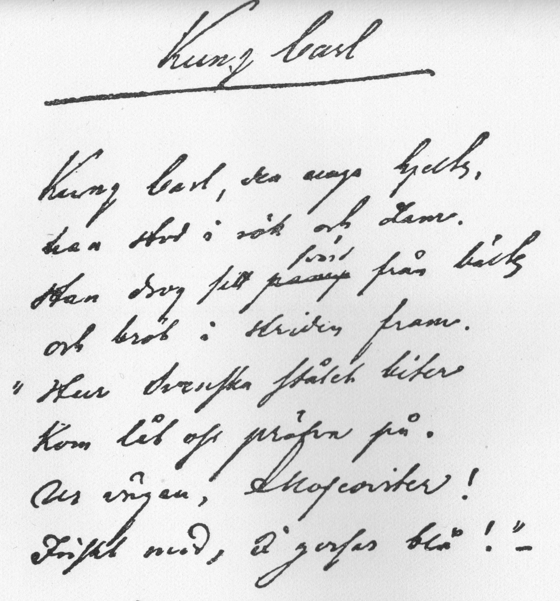 Esaias Tegnér's poem Karl XII in his own handwriting. Manuscript available at the University of Lund.